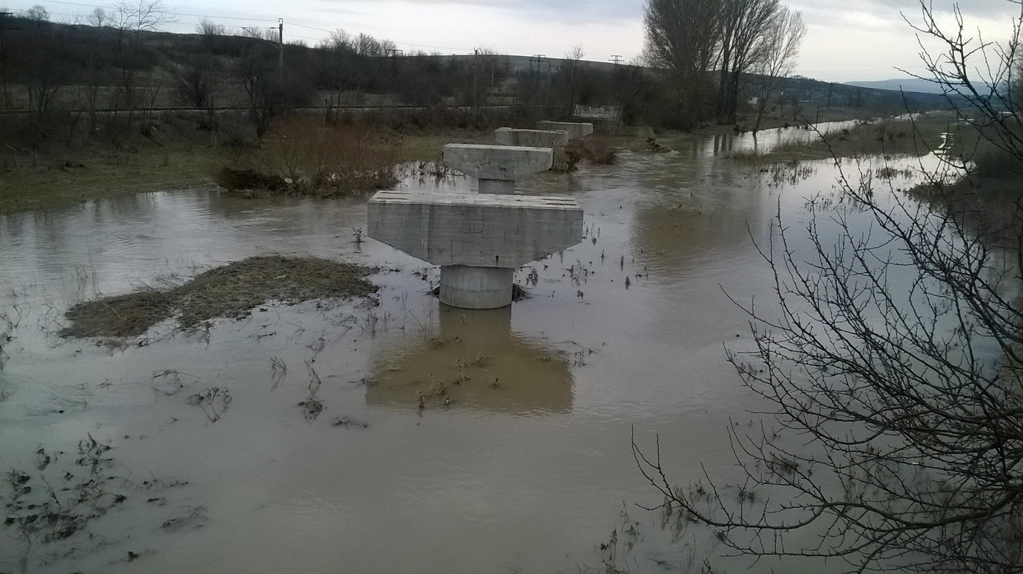 Разлив на Провадийска река край с. Синдел